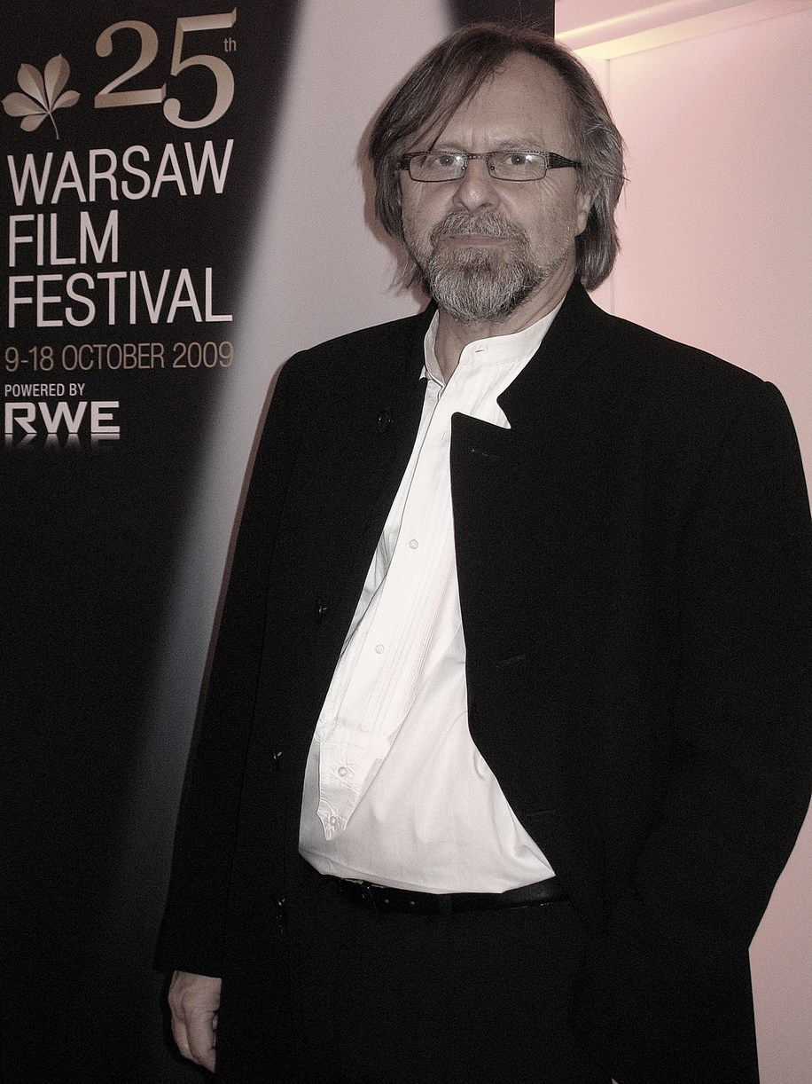 J.A.P. Kaczmarek during Warsaw Film Festival in Warsaw (2009).